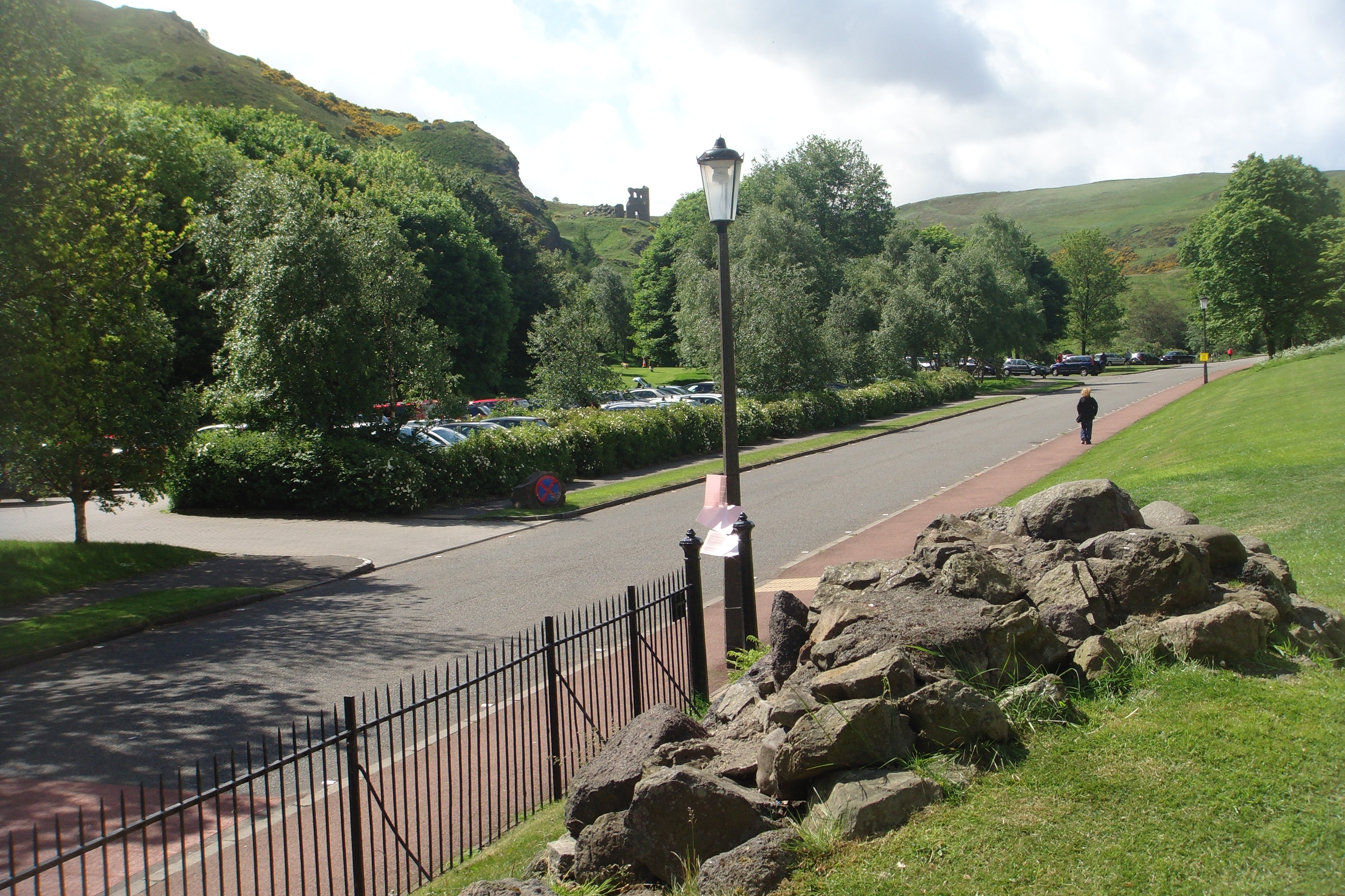 This photograph of Muschat's Cairn in Edinburgh was taken by myself on 20th May 2011